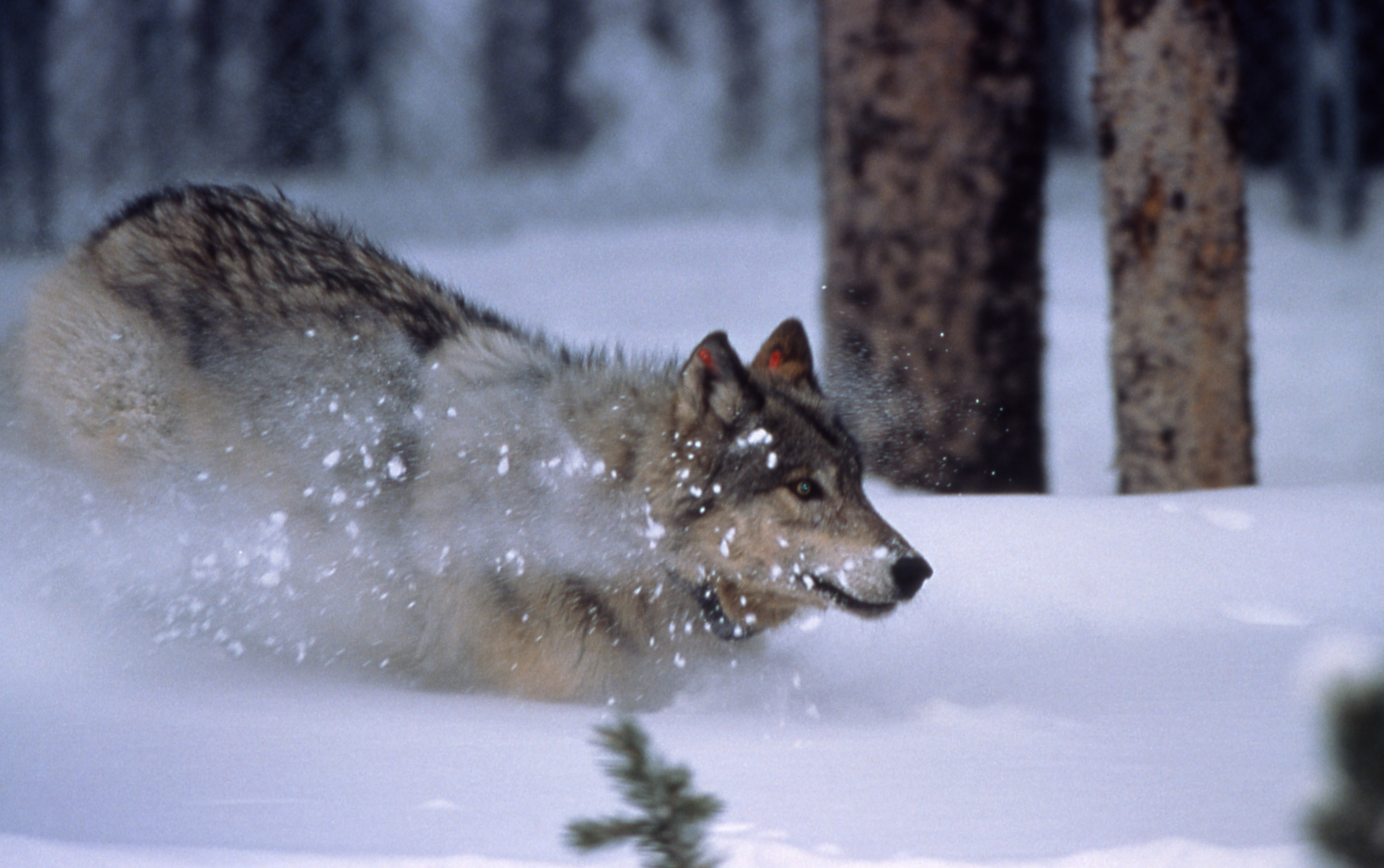 Yellowstone wolf running in snow in Crystal Creek pen (Original text: A newly released and collared wolf in Yellowstone National Park crashes through the snow.)